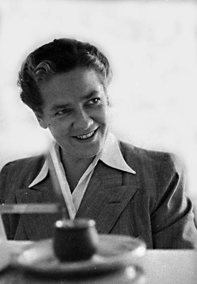 Swedish composer of popular music Kai Gullmar